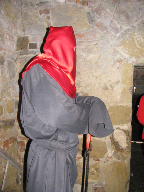 Biecz executioner (Poland)